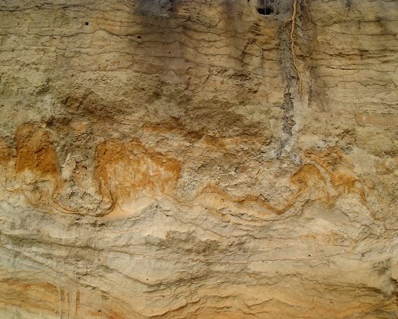 turbid soil